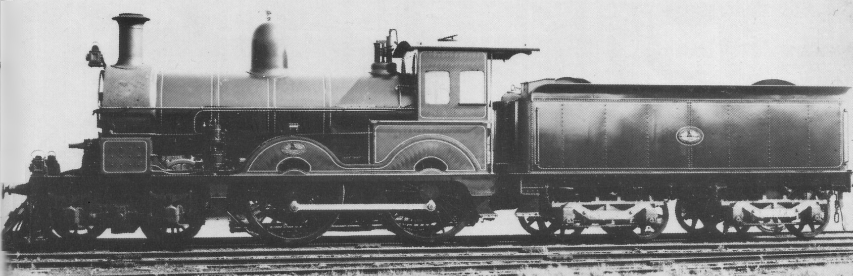 Victorian Railways publicity photograph of Victorian Railways AA class steam locomotive.